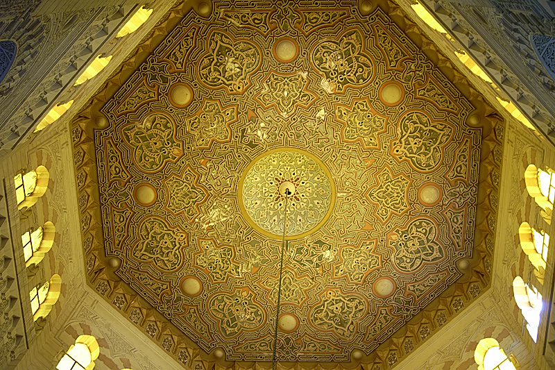 Dome of the Mosque of Abu al-Abbas al-Mursi, Alexandria, Egypt